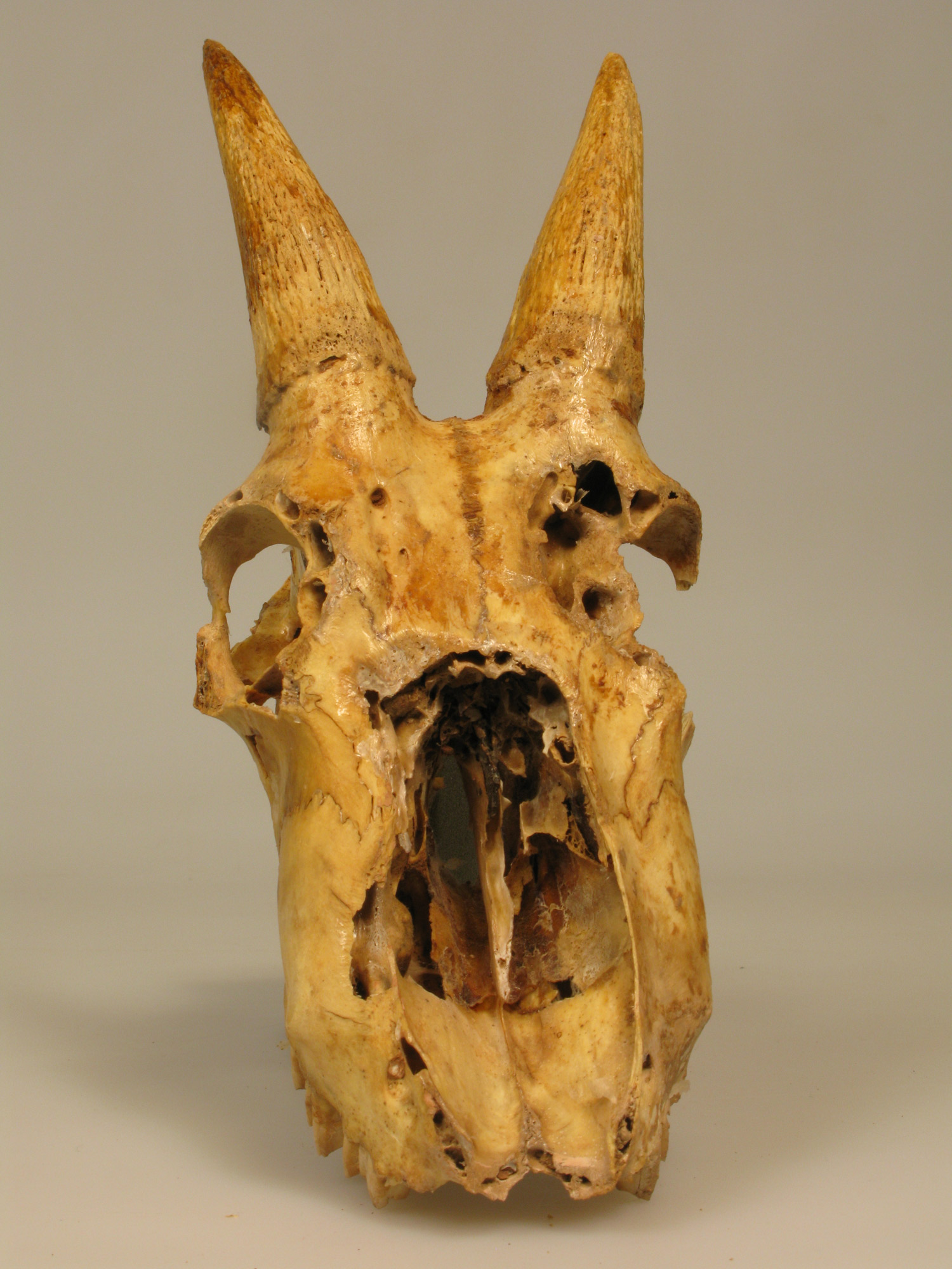 Oreamnos harringtoni. Mountain goat. Bone cranium with horns and sheaths, and teeth. Tests indicate that Harrington's mountain goat occupied the Grand Canyon for at least 19,000 years prior to becoming extinct by 11,160 ± 125 radiocarbon years before present. NPS Photo.